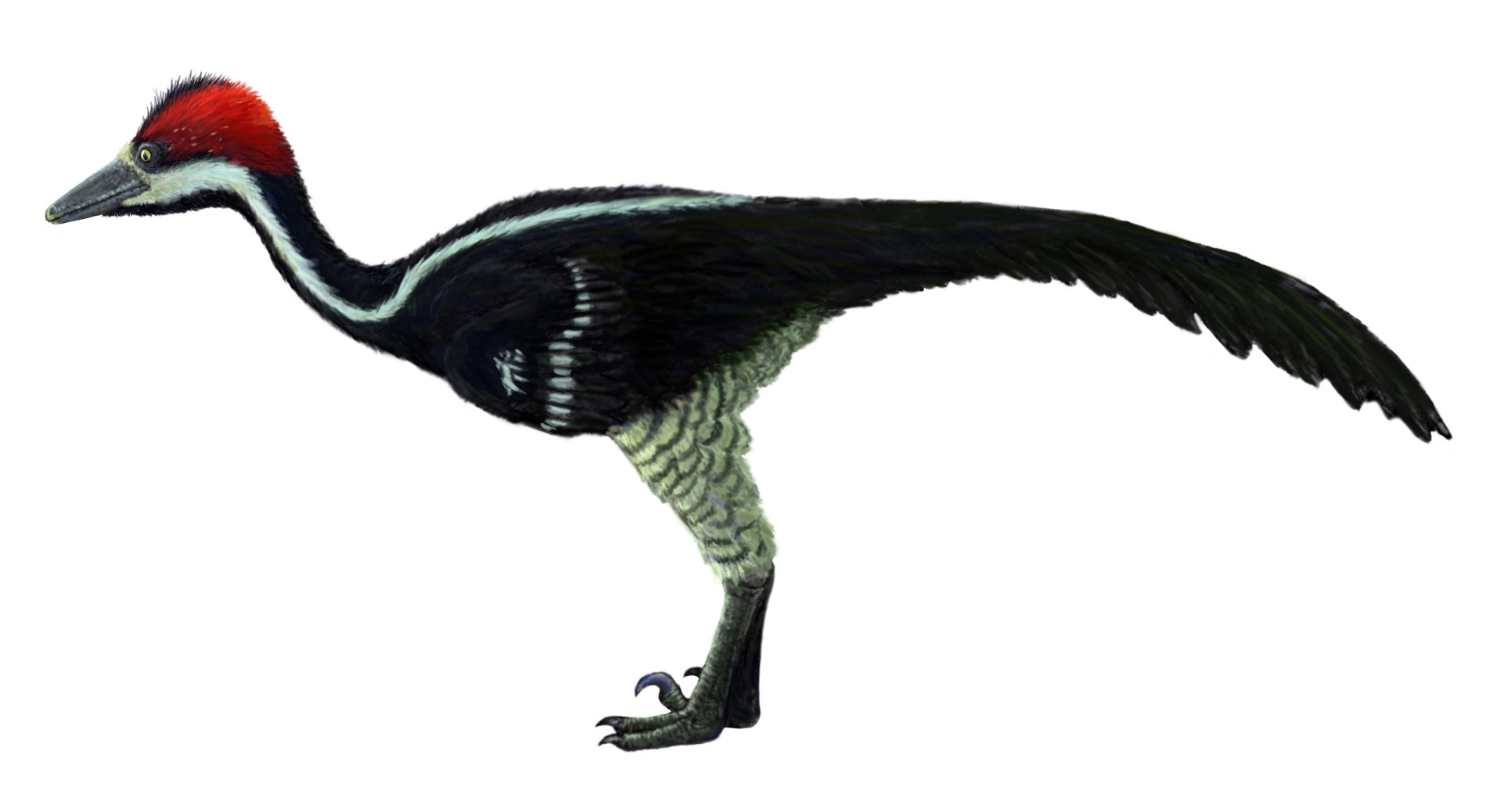 Zanabazar junior (formerly Saurornithoides).